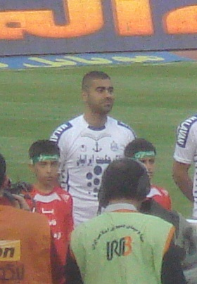 Maziar Zare, Persepolis-Malavan match, 2012-13 Iran Pro League